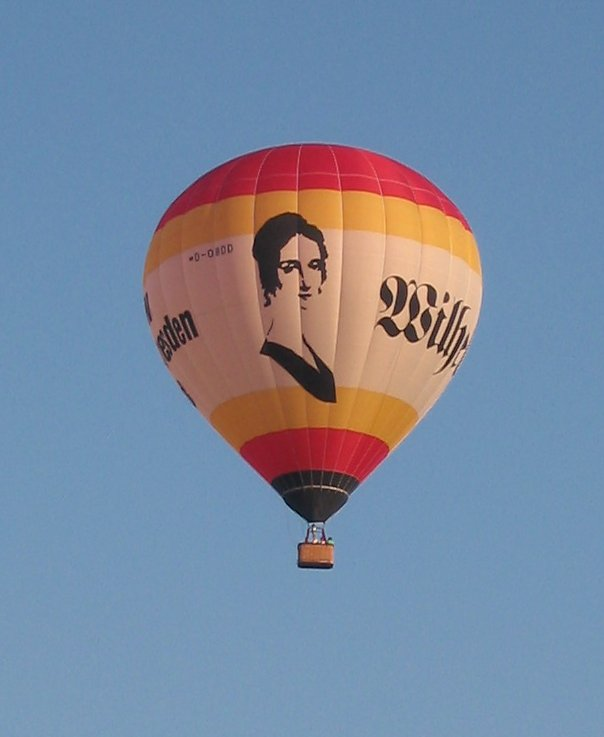 Hot air balloon D-OBDD above Dresden.